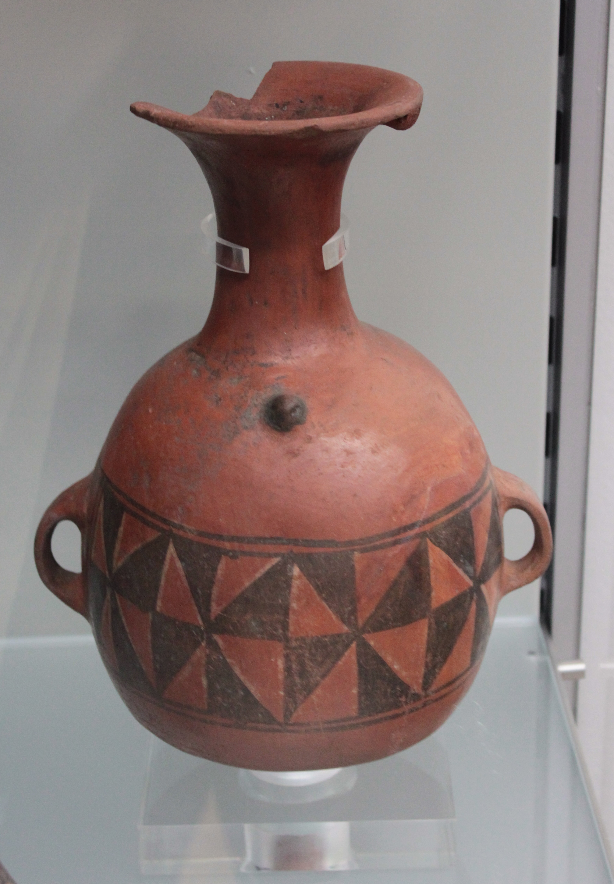 Bottle for storing or carrying liquid, perhaps corn beer Peru Inca culture 1470-1532 Given by the Rev. Sanderson Tennant Collection ID: 1711-1869 This photo was taken as part of Britain Loves Wikipedia in February 2010 by Jenny ODonnell.